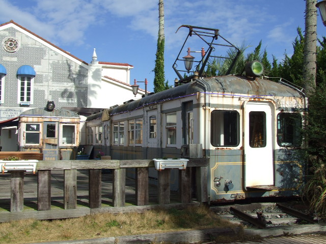 Restaurant "Cafe de Egao" in front of Inubo Station on the Choshi Electric Railway. The EMU car on the right is former Sagami Railway 2000 series car 2022, and the sectioned car on the left is former Choshi Electric Railway DeHa 501.